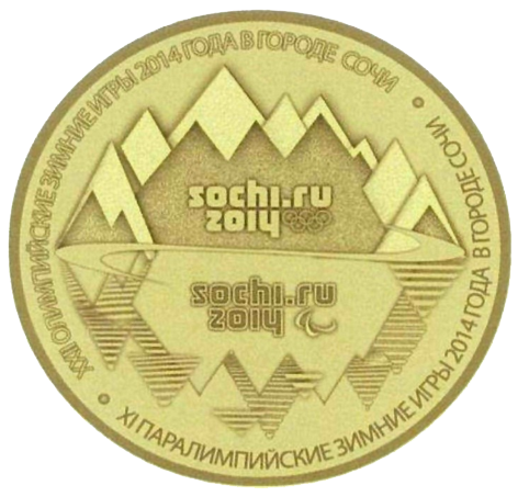 Commemorative medal XXII Olympic Winter Games and XI Paralympic Winter Games 2014 in Sochi (avers)